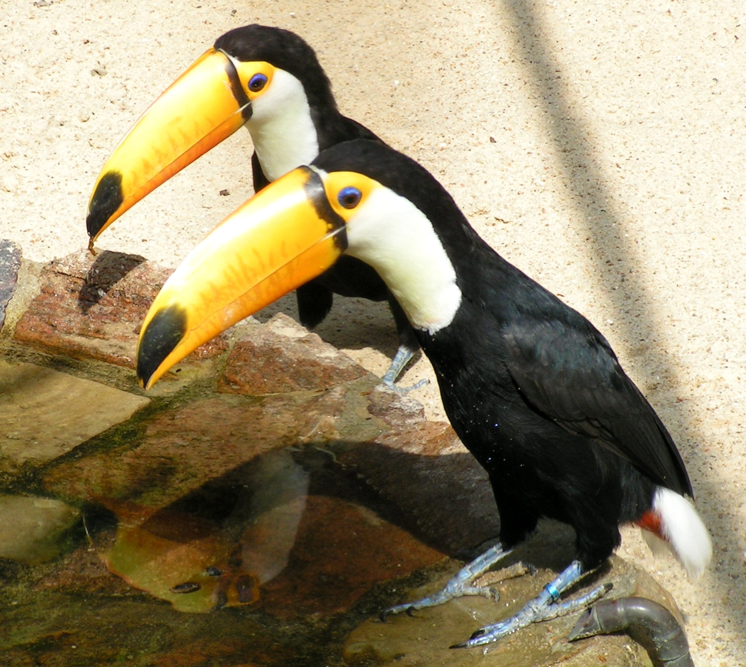 Two Toco Tucans Ramphastos toco (de: Riesentukan) at Vogelpark Walsrode, Walsrode, Germany